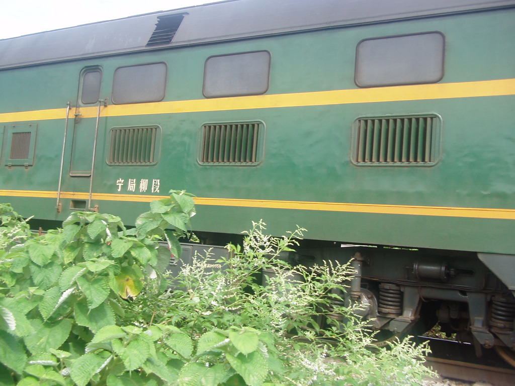 The DF4B 3999 diesel locomotive's attachment:Nanning Railway Bureau Liuzhou Depot